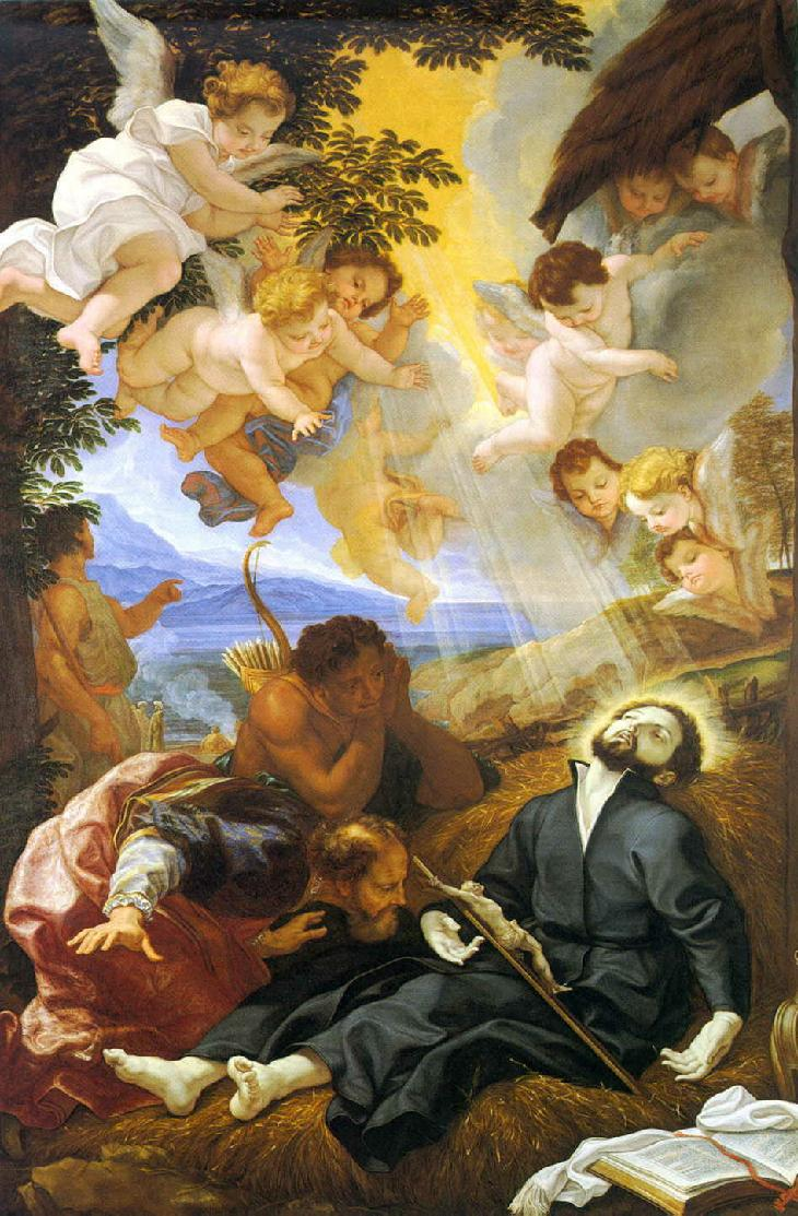 St. Francis Xavier dying at Sancian, by Baciccio, oil on canavas 296 x 197 cm. Ascoli Piceno, church of St. Augustine, San Venanzio-Ascoli Piceno.